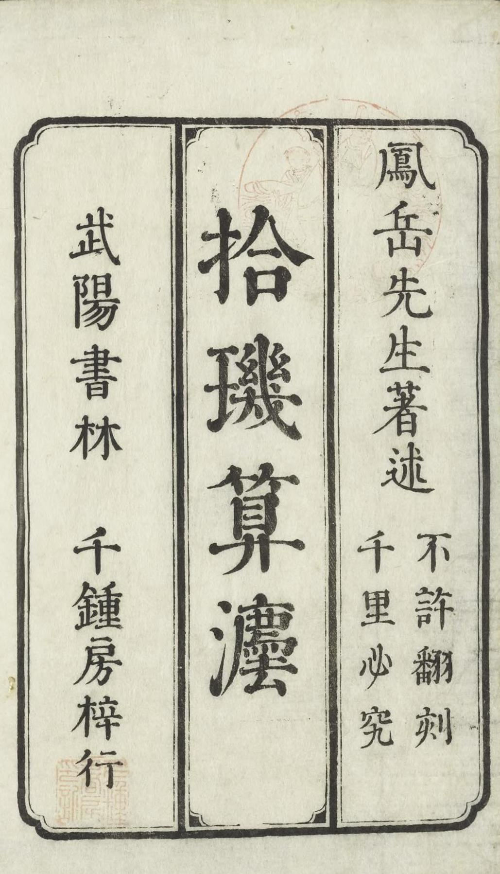 First page of 拾璣算法